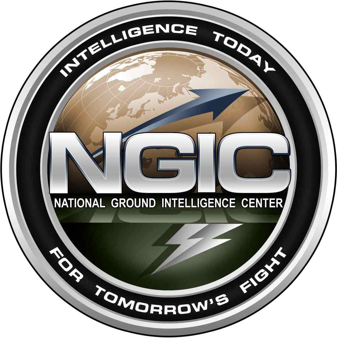 Graphic of the United States Army Intelligence and Security Command's National Ground Intelligence Center (NGIC) seal